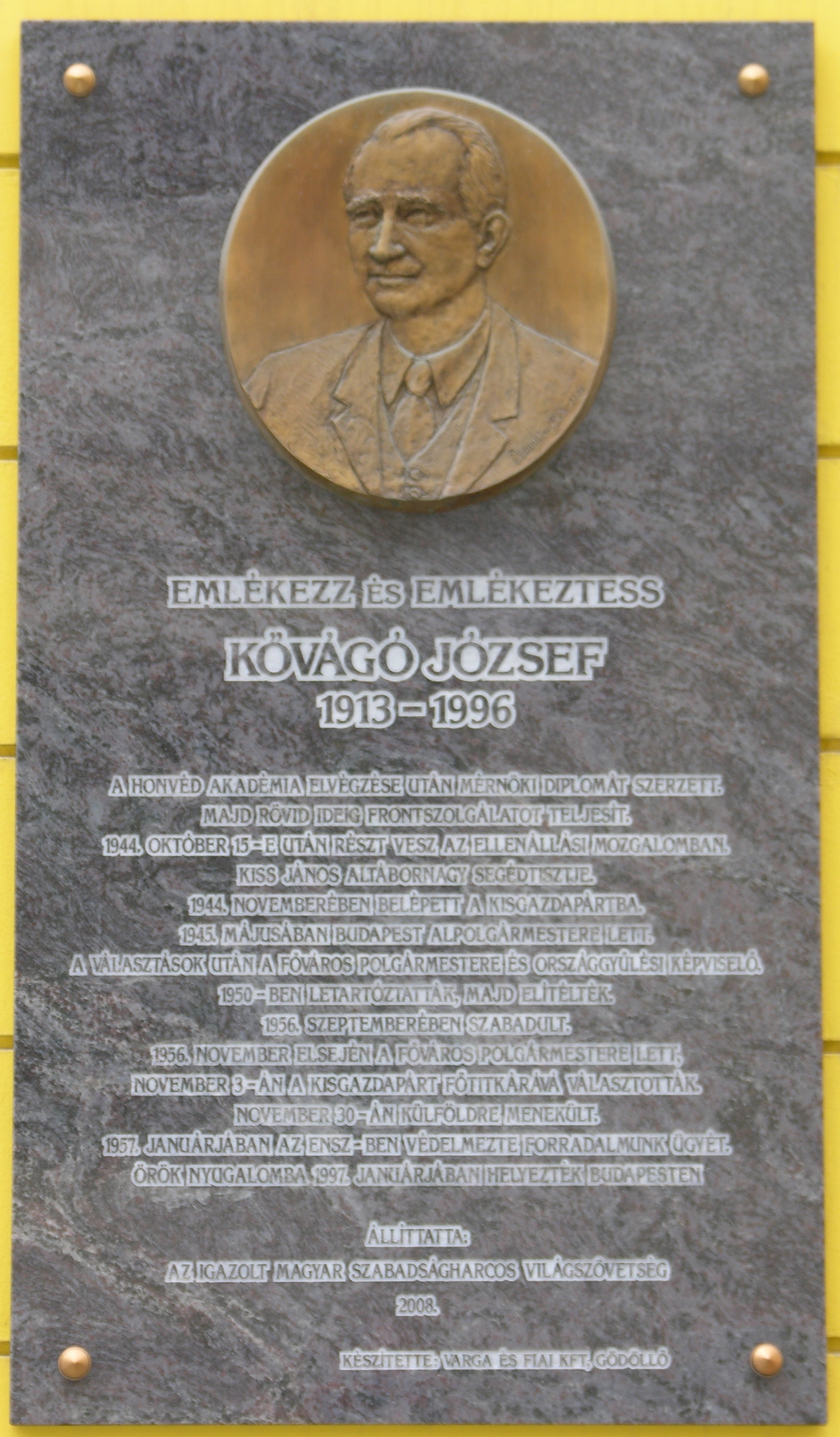 Commemorative plaque of József Kővágó in Budapest District VIII, Corvin Passage No 1 (Corvin Movie Theatre)